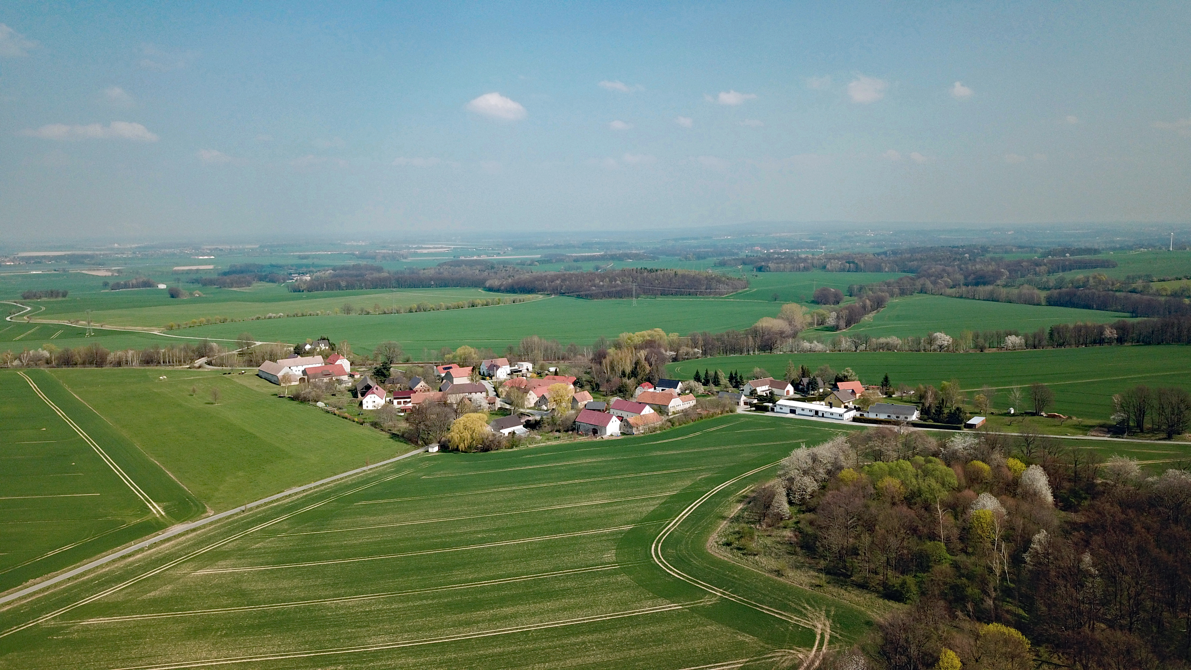 Waditz (Kubschütz, Saxony, Germany) Hornjoserbsce: Powětrowy wobraz Wadec Dieses Foto wurde mit einem Quadcopter innerhalb der RMZ des Flugplatzes EDAB aufgenommen. Der Flugleiter wurde am Aufnahmetag telephonisch über Ort und Zeit informiert und hat zugestimmt. Der Flug erfolgte auf Grundlage der Allgemeinverfügung der Landesdirektion Sachsen zur Erteilung der Betriebserlaubnis für unbemannte Luftfahrtsysteme und Flugmodelle gemäß § 21a LuftVO und Zulassung von Ausnahmen von Betriebsverboten gemäß § 21b LuftVO für den Freistaat Sachsen.